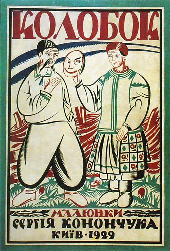 Иллюстрация к сказке "Колобок"